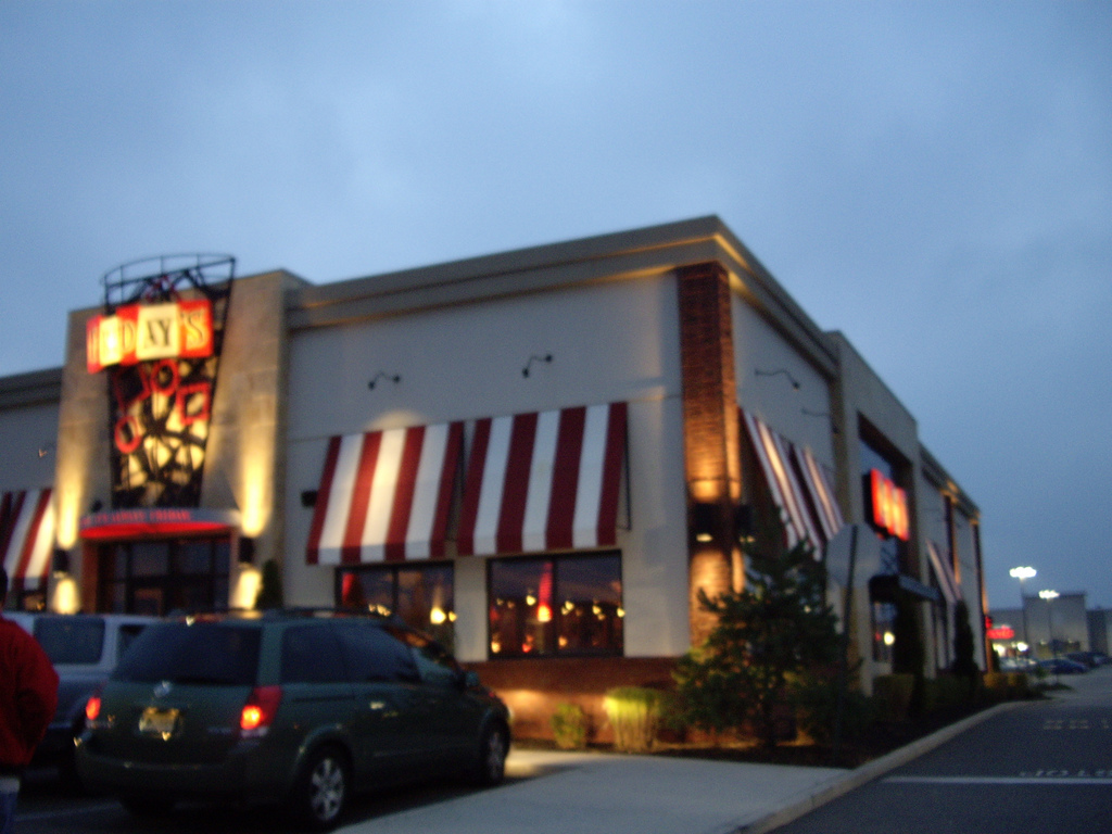 TGI Friday's in Manahawkin, New Jersey - by LancerEvolution